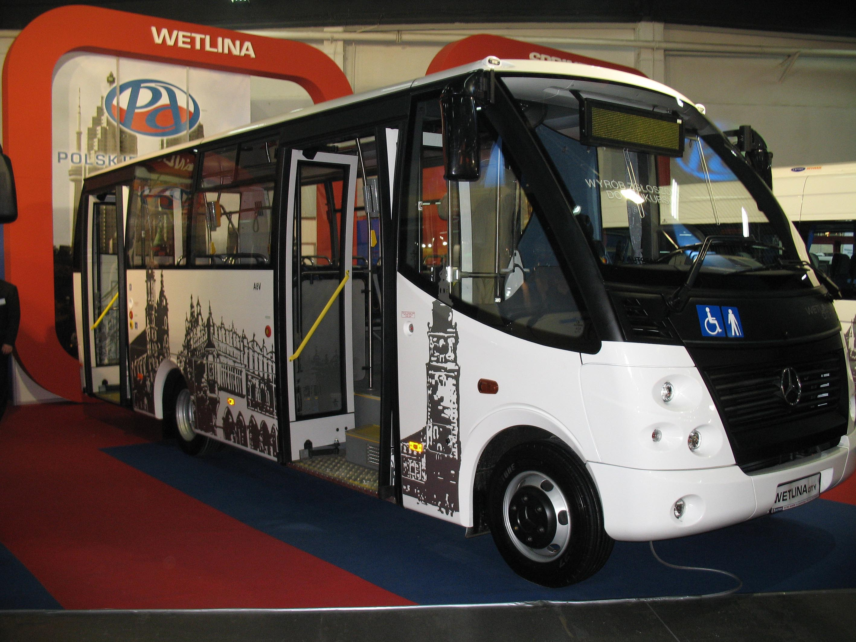 Autosan A8V.02.01 Wetlina City bus in Kielce, Poland. Built 2008. Base on Mercedes-Benz Vario chassis.